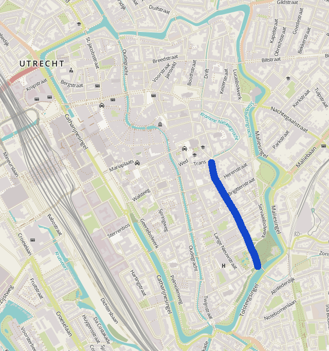 Map of the Nieuwegracht waterway in Utrecht, The Netherlands